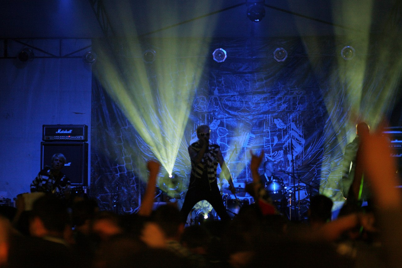 Safoni